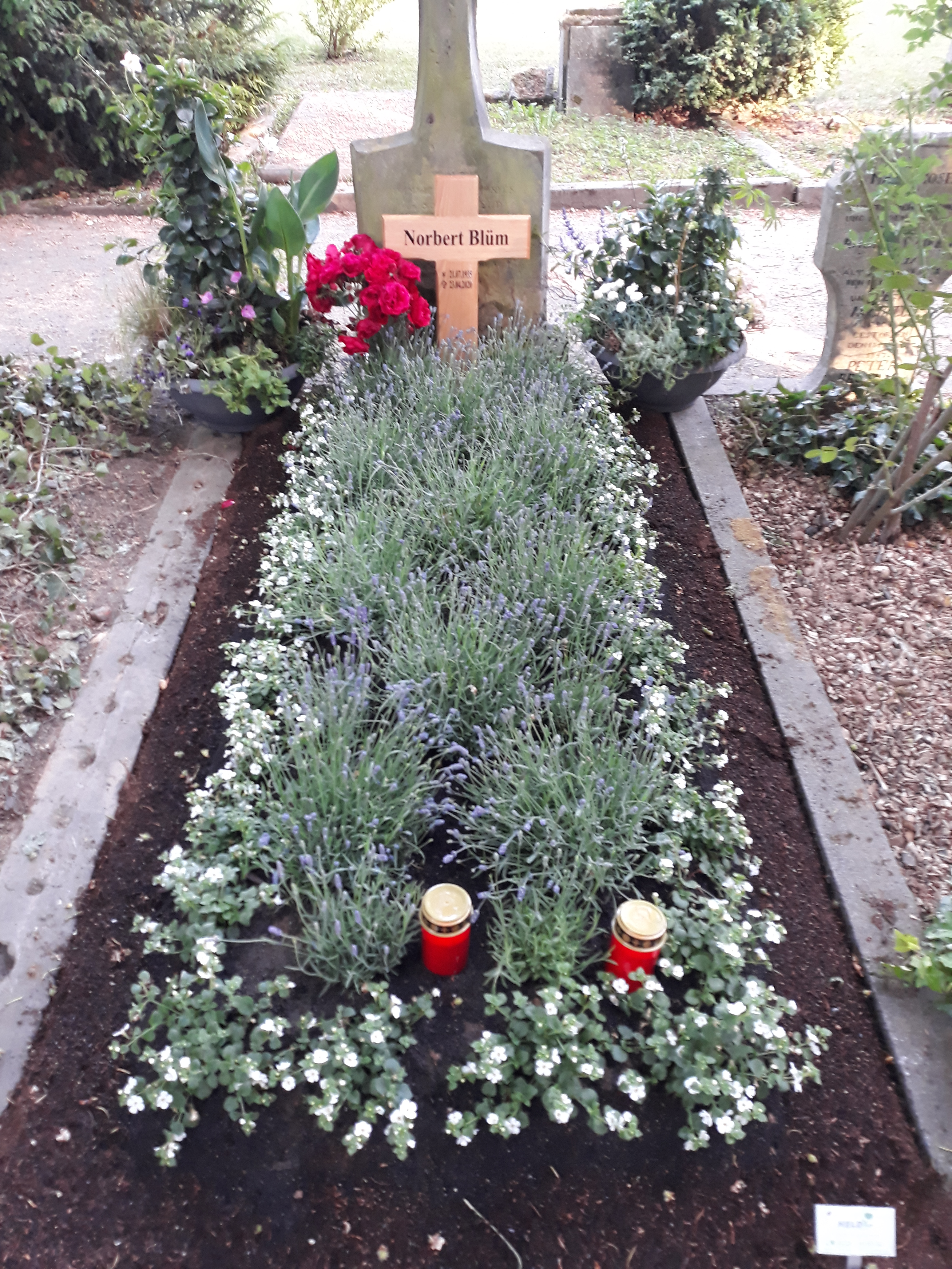 Das Grab des deutschen Politikers Norbert Blüm auf dem Alten Friedhof Bonn.